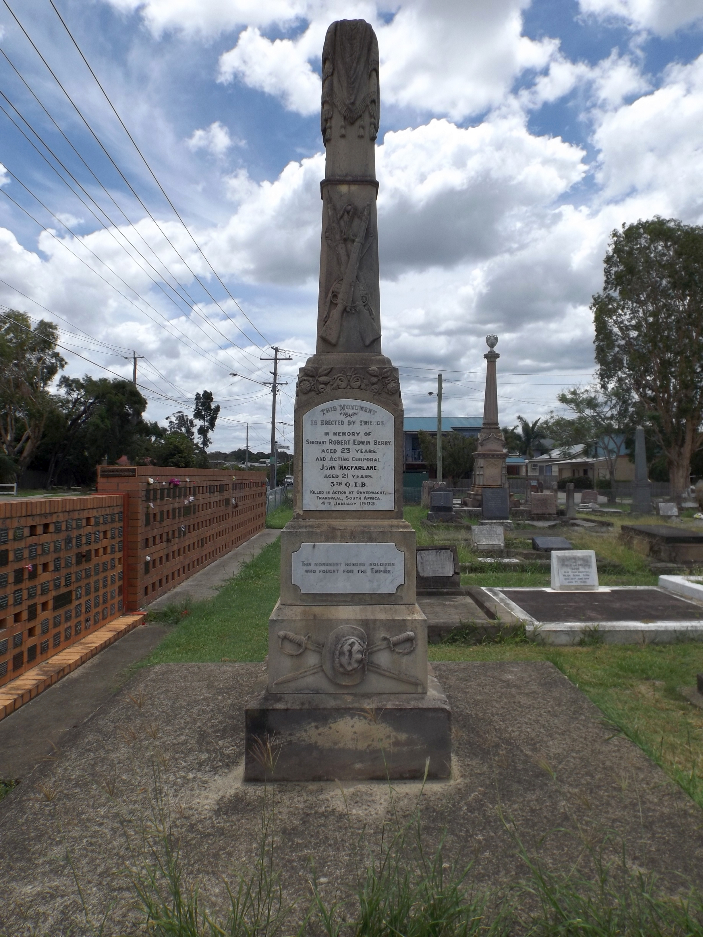 Photo of Berry and MacFarlane Monument at Sherwood, Brisbane, Queensland, Australia.